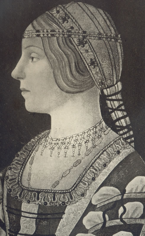 Lucrezia Crivelli Italian courtier – mistress of Lodovico Il Moro of Milan Portrait by Bernardo Martini opp. p 242 – Lords and Ladies of the Italian Lakes (1912) – Edgcumbe Staley, John Long Ltd, London.